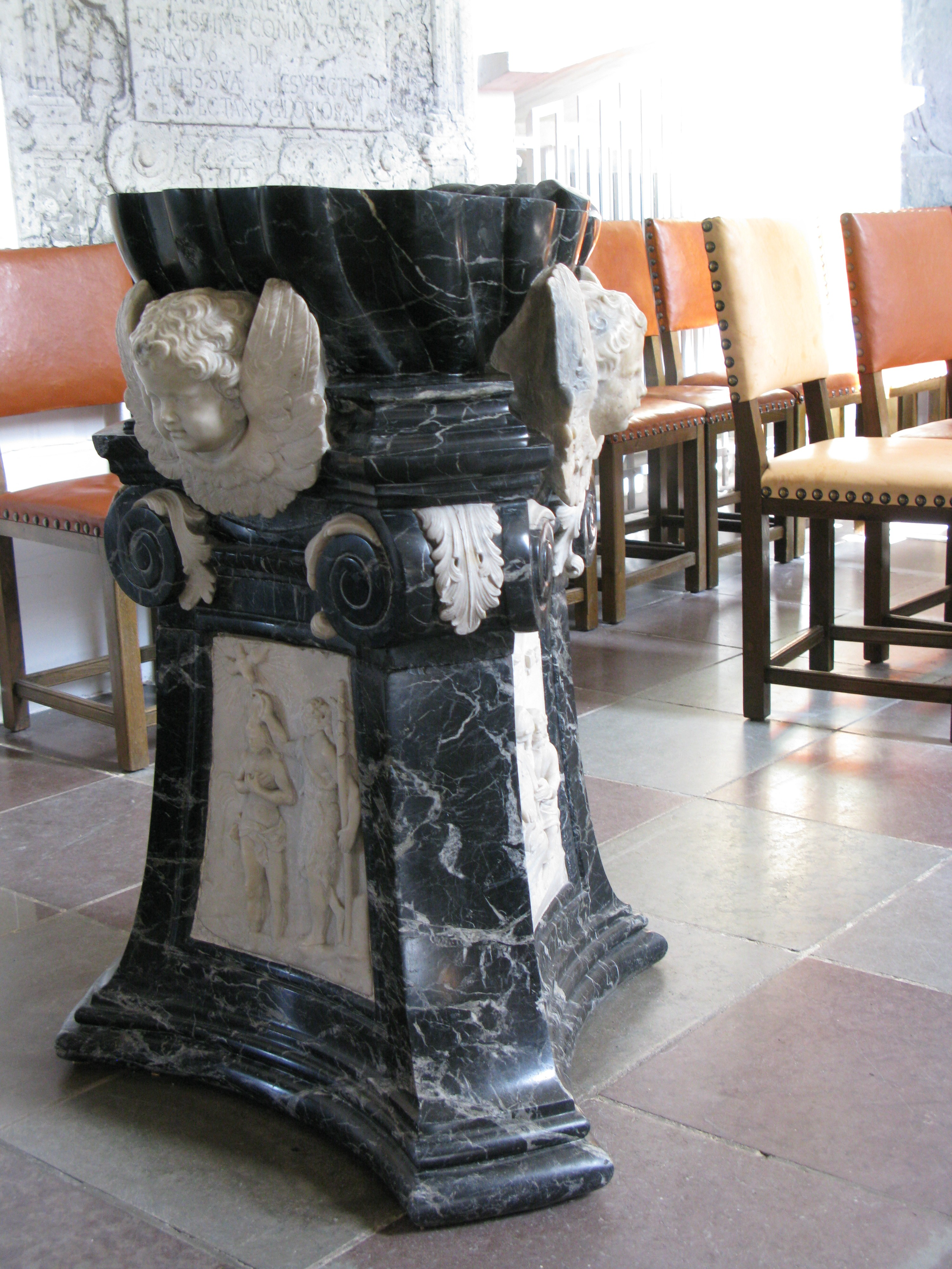 Baptismal font of Budolfi-Cathedral Aalborg, Northern Denmark